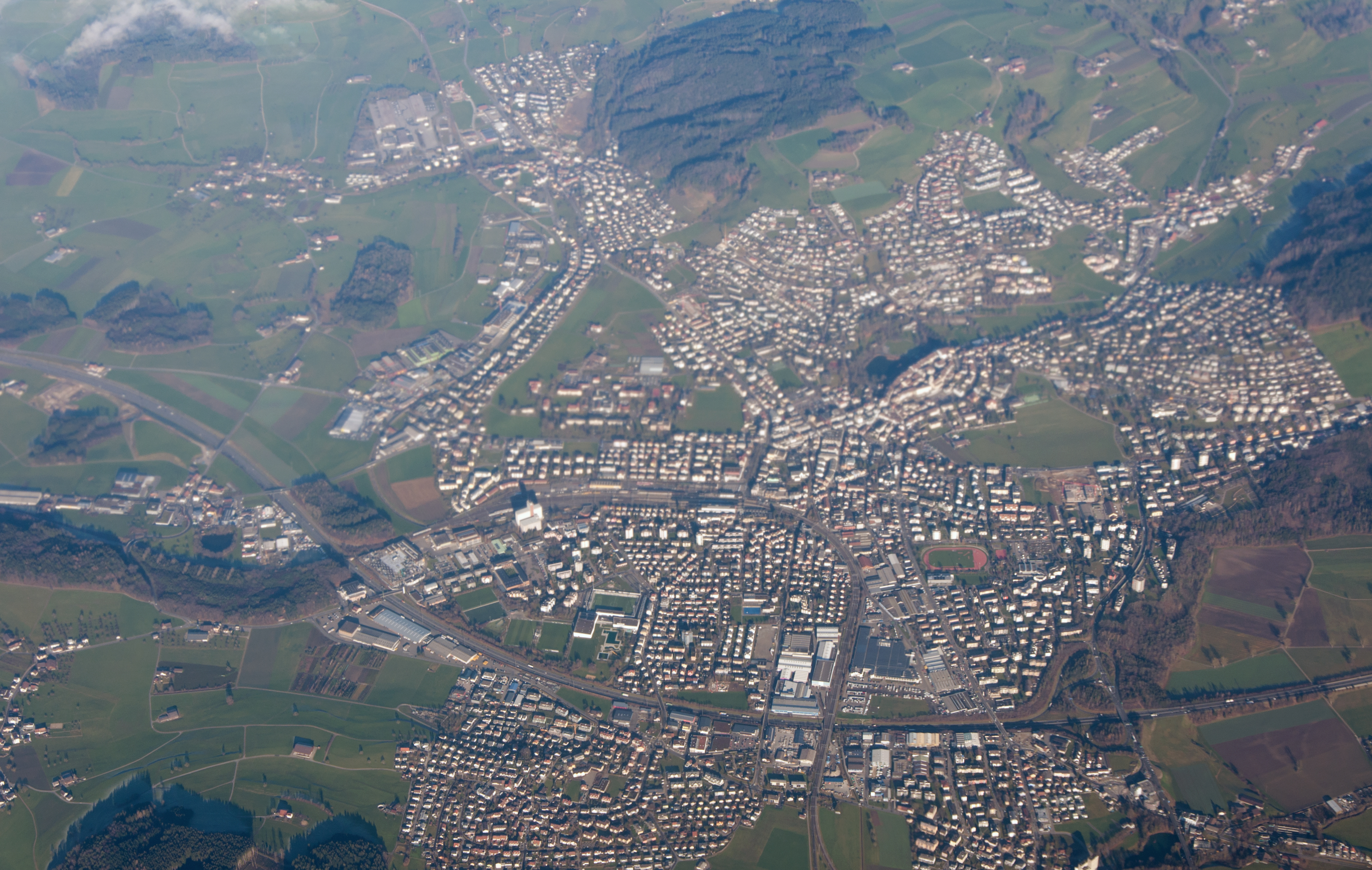 Switzerland, Canton of St. Gallen, aerial view of Wil from 5100 m asl.